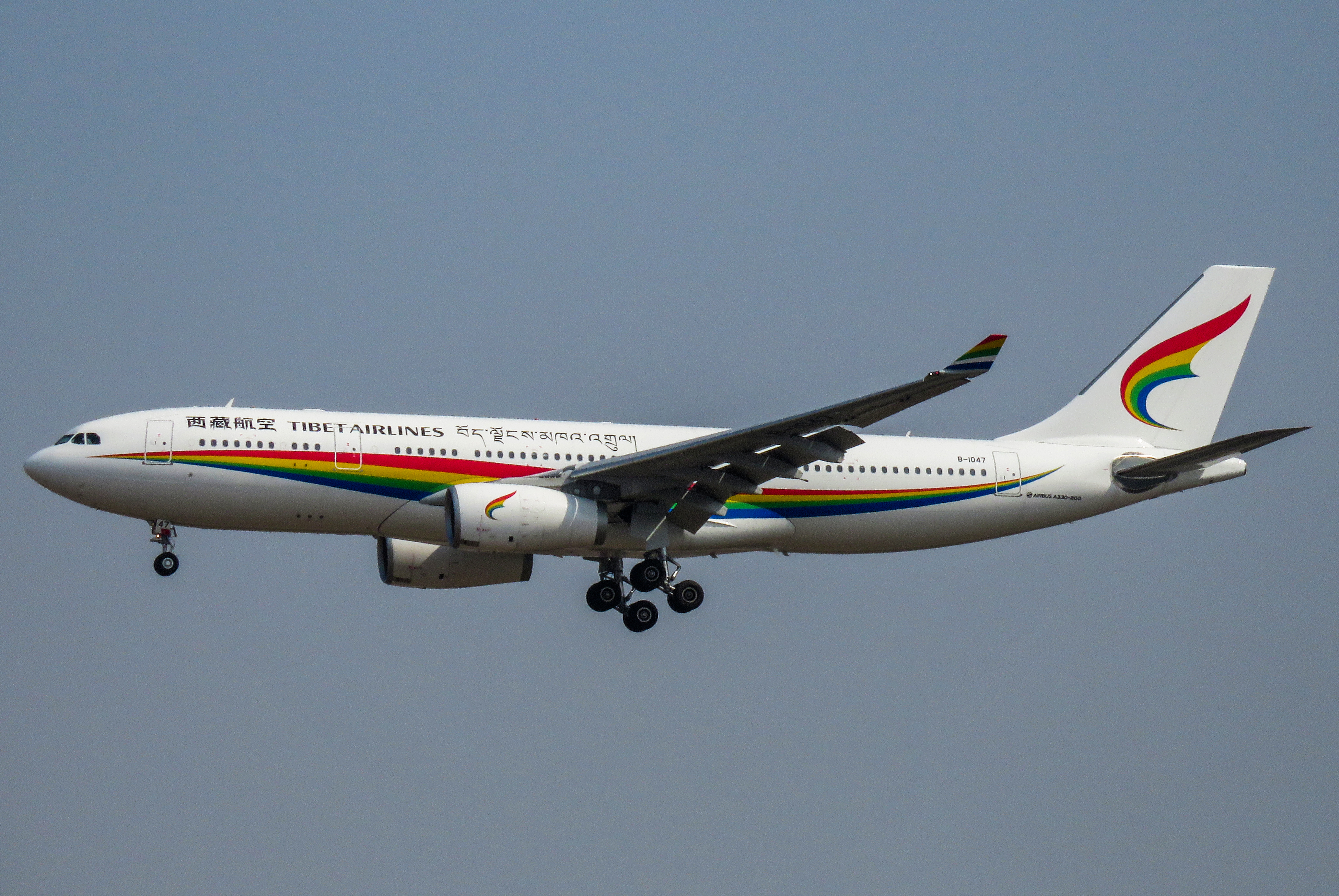 Tibet 9815 from Lhasa. Tourism to Tibet goes warmer with the weather - look, this brand new A332 entered service quickly after delivery.